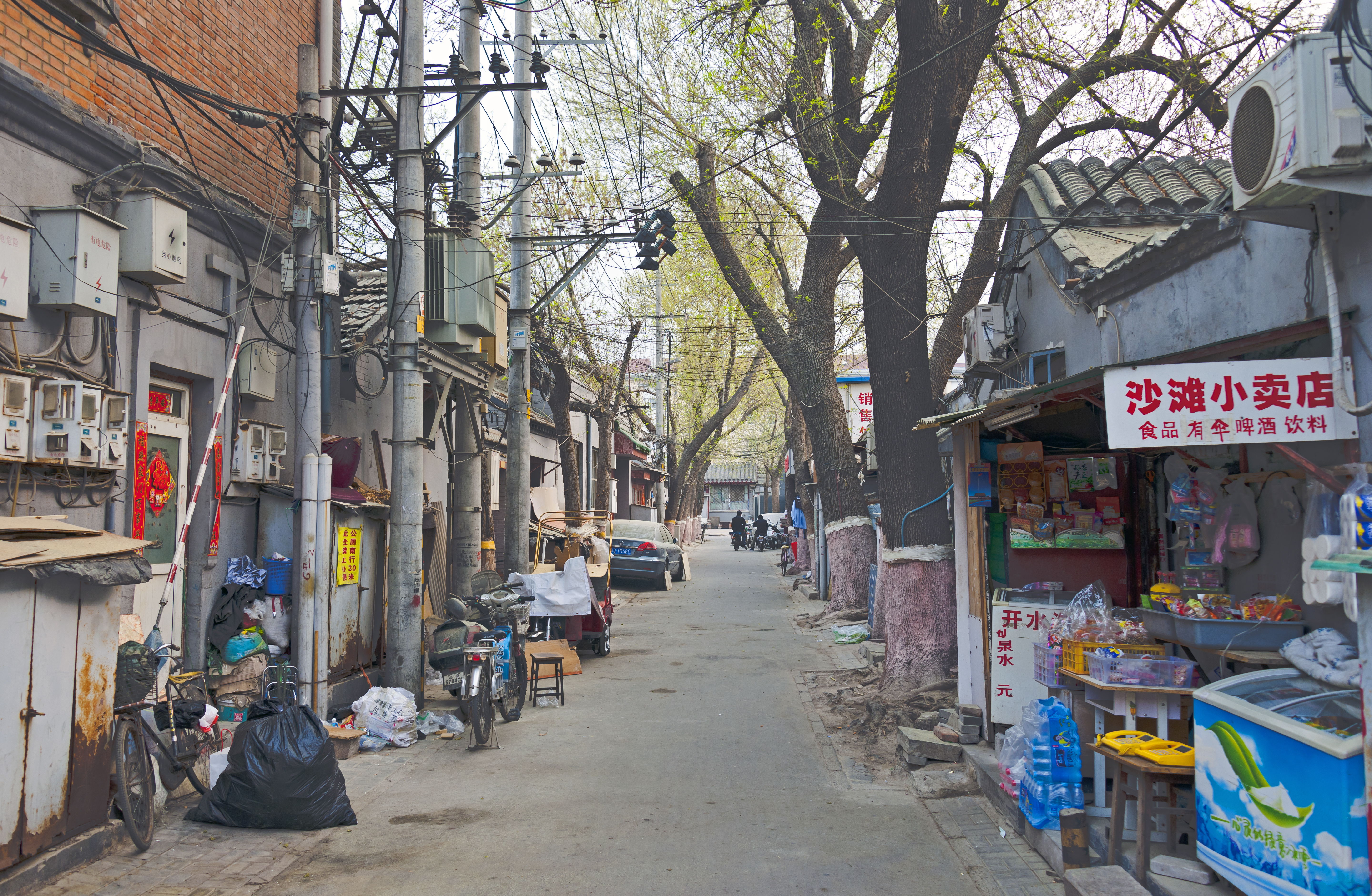 View south down Yinzha Hutong, Beijing, from Wusi Street.